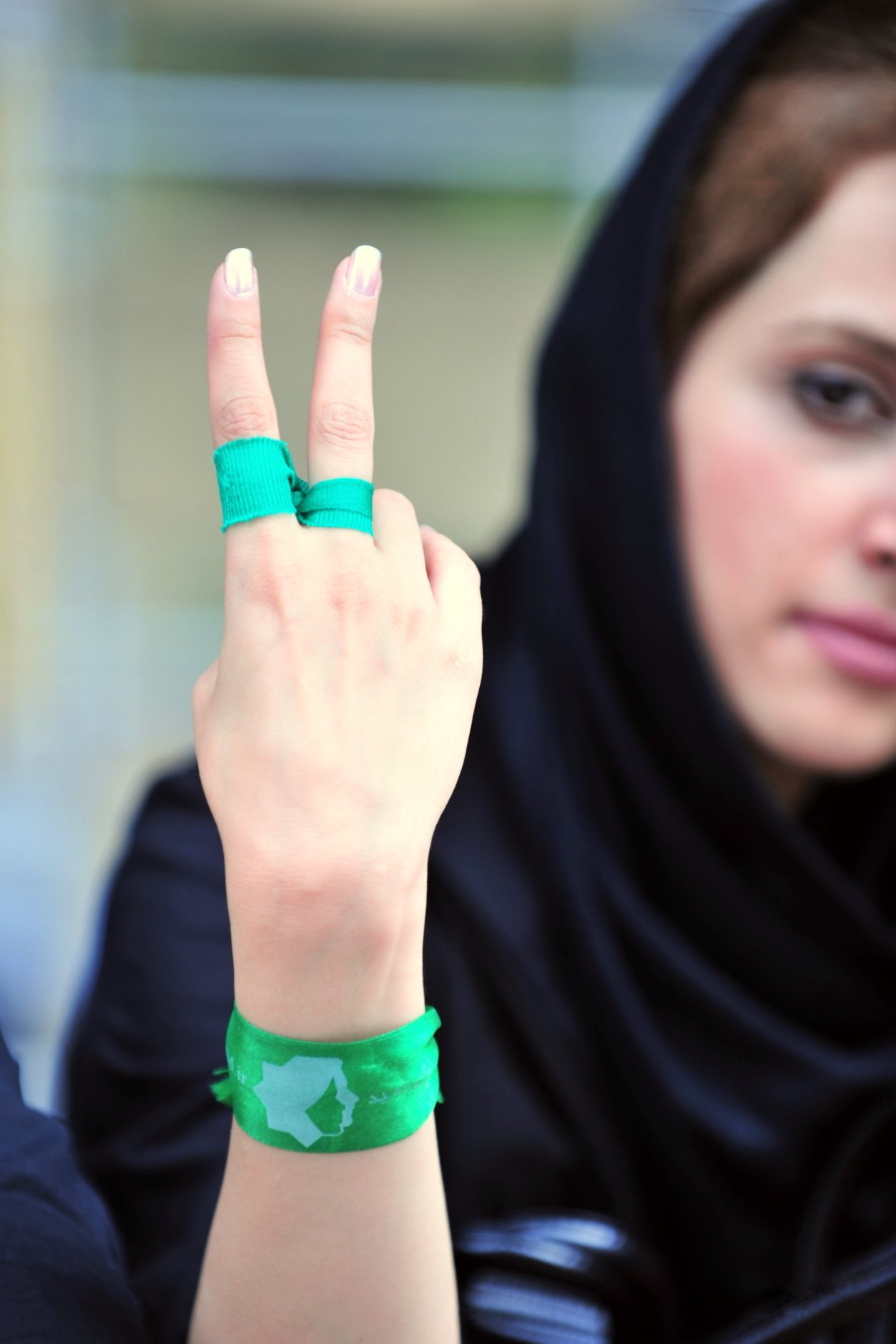 Silent demonstration for saying condolence to family of this week martyrs A lot more photos from this day: [1] Viva Iran!